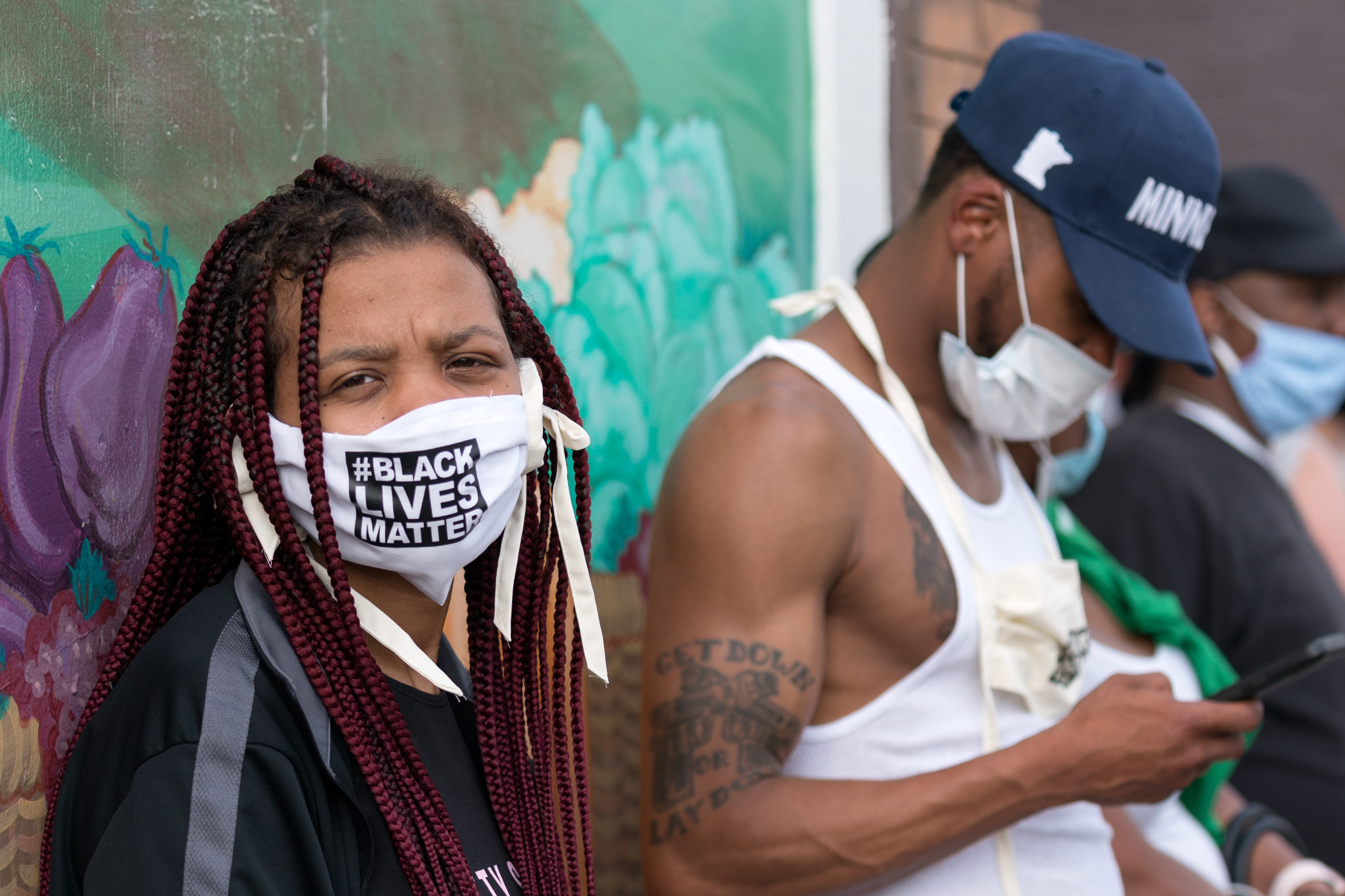 On May 26, 2020, people protested against police violence after the death of George Floyd on the previous day.